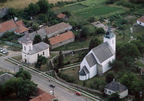 Vizsoly, temple, Hungary, aerial photography